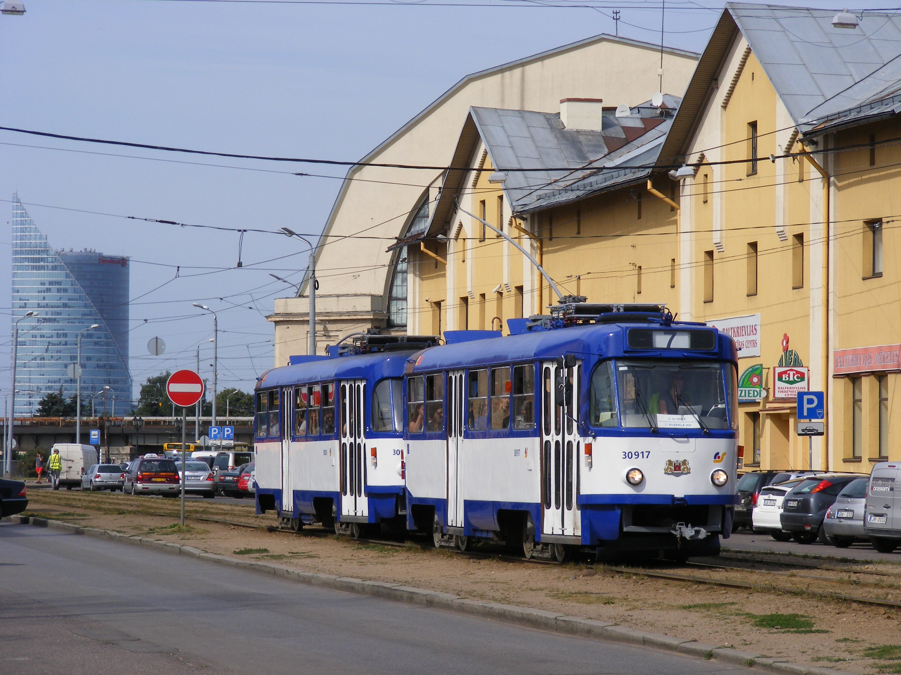 Riga Tatra 30917 on route 7- in the centre background, the unmistakeable outline of one of the market halls